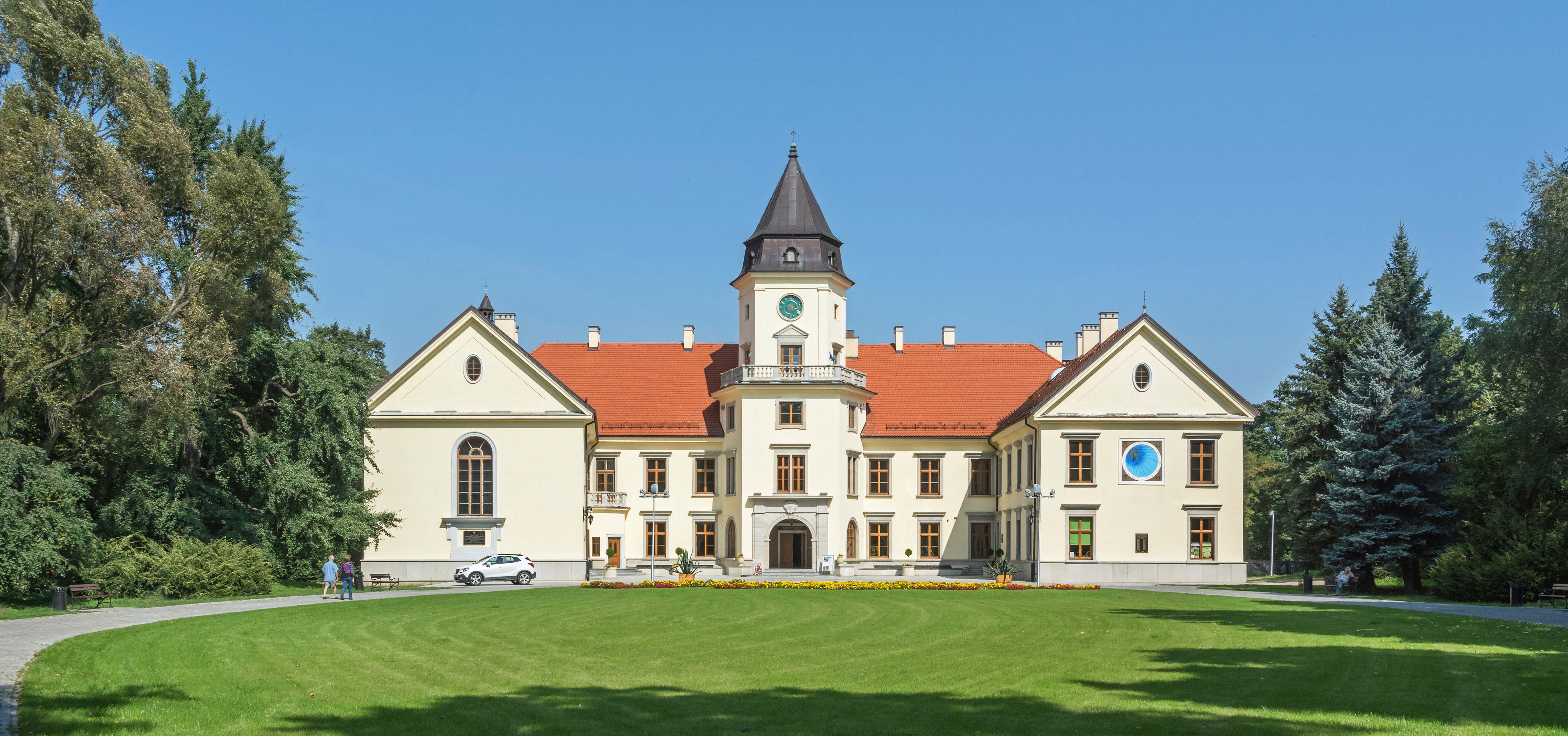 Dzikovia Castle in Tarnobrzeg